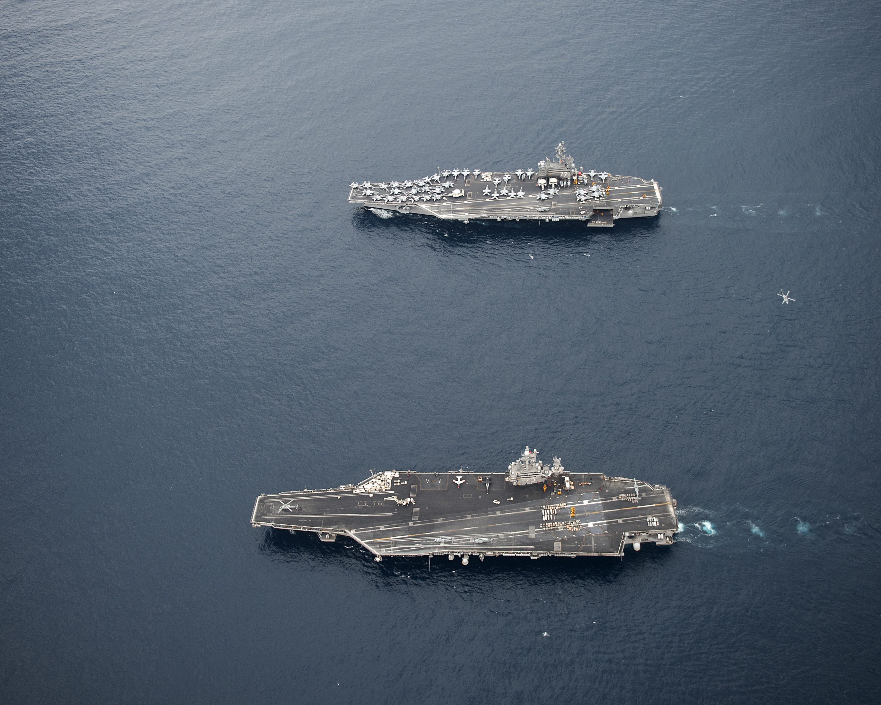 ATLANTIC OCEAN (February 17, 2011) The aircraft carriers USS Harry S. Truman (CVN 75), front, and USS George H.W. Bush (CVN 77) conduct an ordnance transfer. George H.W. Bush is conducting a joint task force exercise and Harry S. Truman has spent the last three weeks supporting fleet replacement squadron carrier qualifications for Naval Aviation Training Command and suitability testing for the E-2D Advanced Hawkeye. (U.S. Navy photo by Mass Communication Specialist 2nd Class Matthew D. Williams/Released)